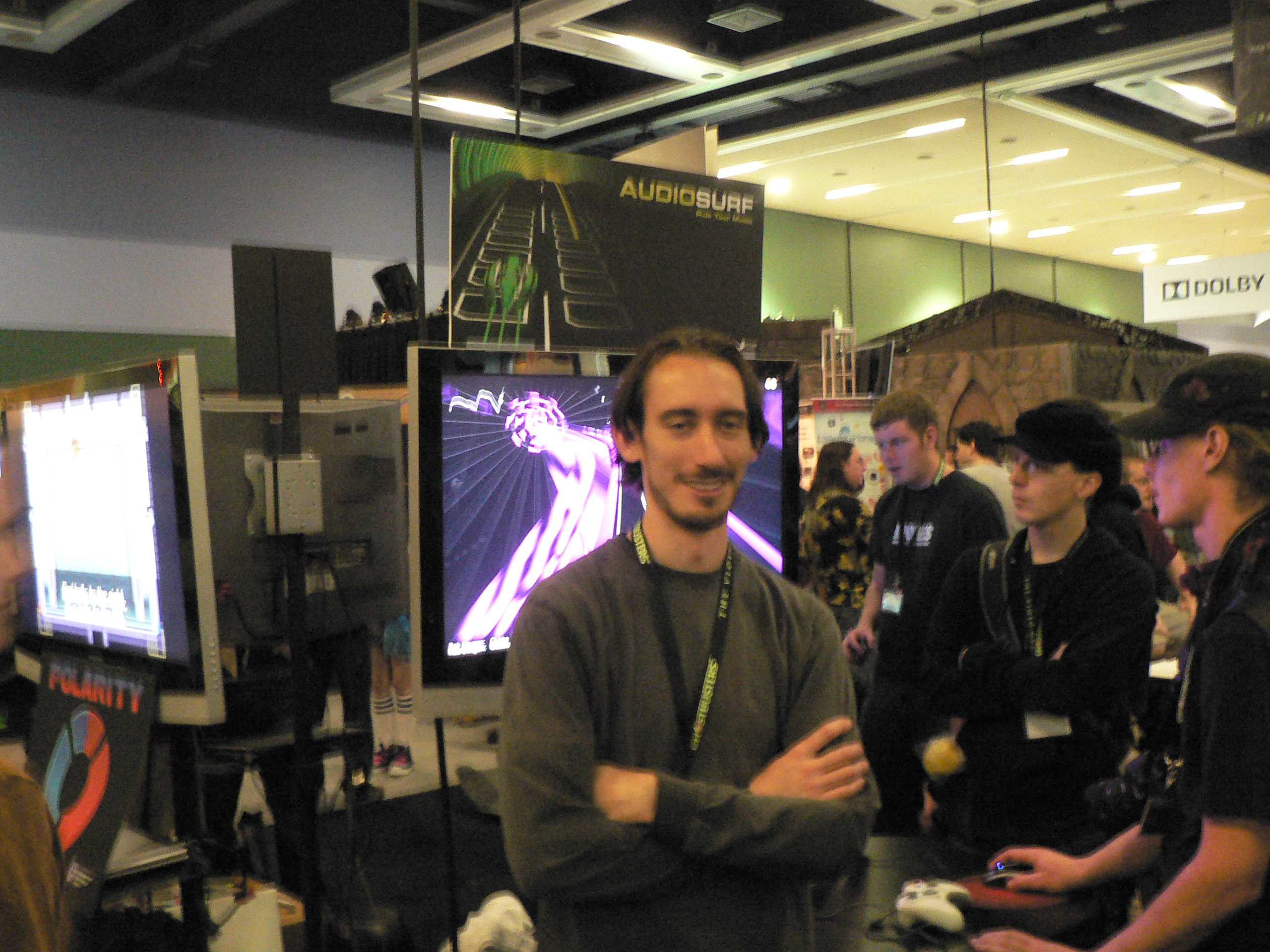 He was nice enough to pose for me! Taken at PAX 2008.